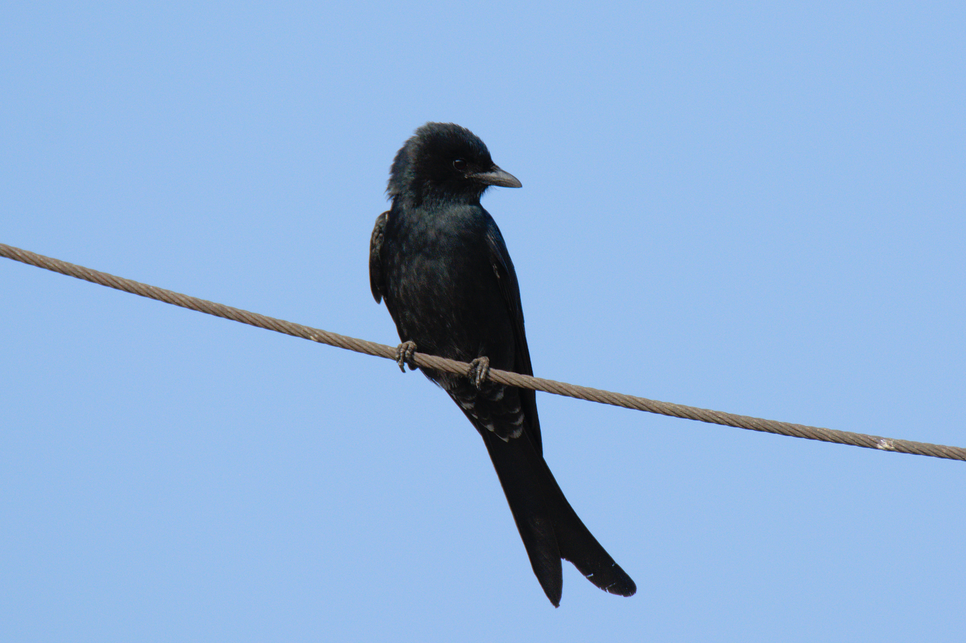 You might think this bird looks like a maven but this bird is much smaller than a maven. The size is like a sparrow and the colour is wholely black. The tips to identify this bird is to to recognize the tail of the shape is like Y. This bird can seen in India, South China, Indonesia and Taiwan. It could be seen in Japan at May, but it is rate to find.